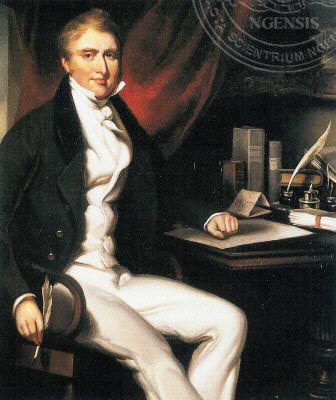 William Jardine (1784–1843). Appears to be from [1].